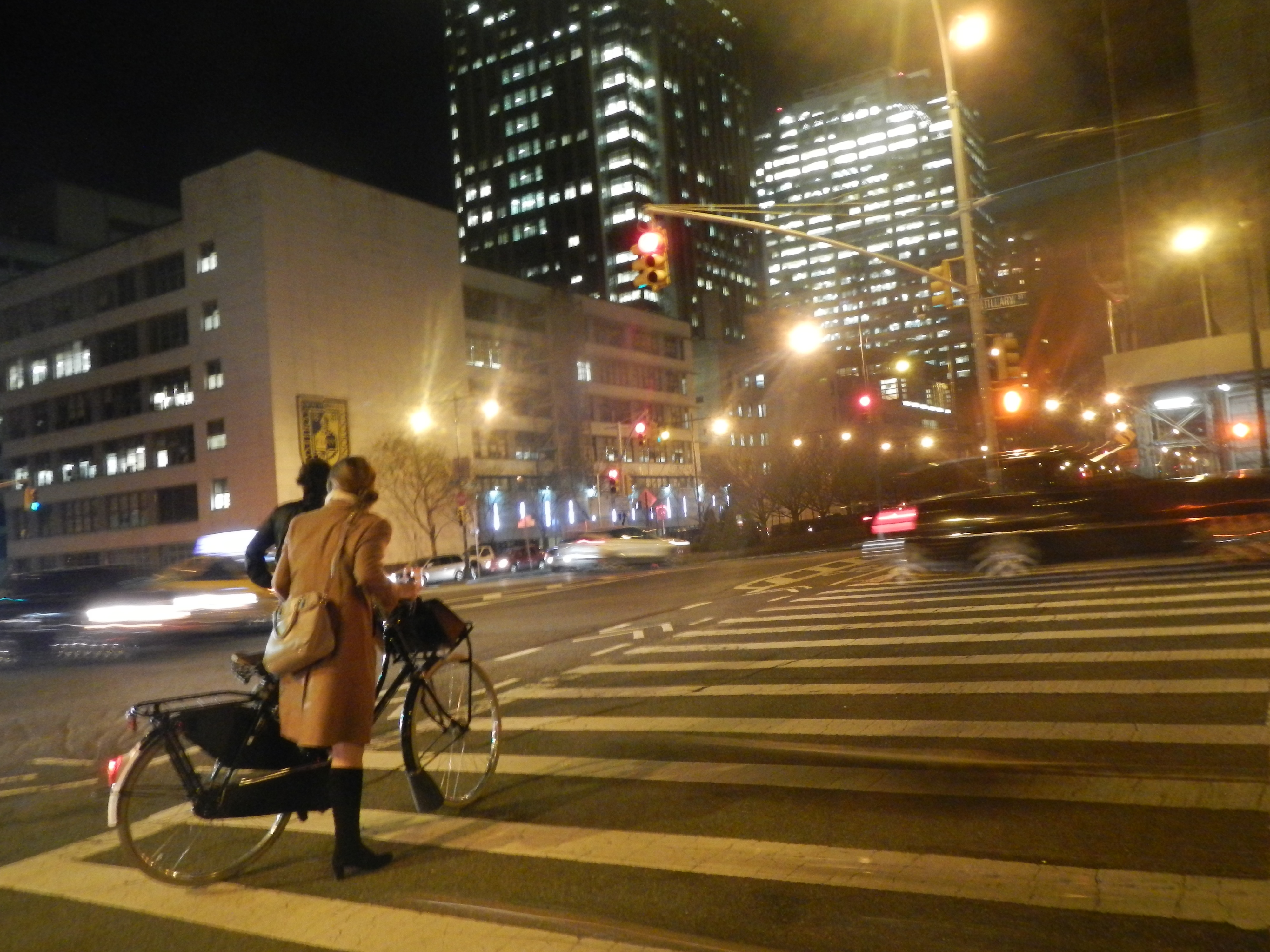 Looking southeast as evening commuters, having arrived by Brooklyn Bridge, await green light.